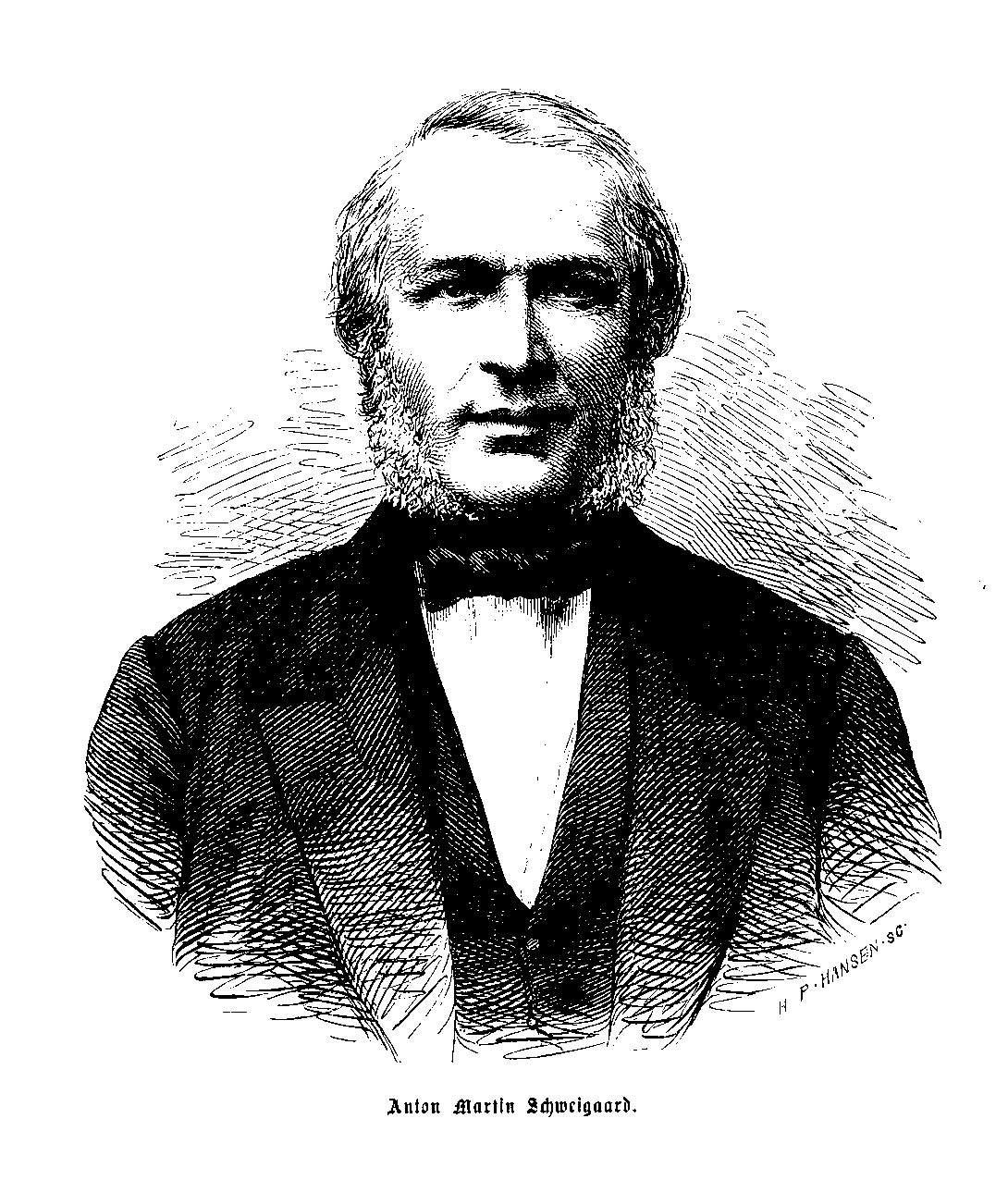 Norwegian jurist A. M. Schweigaard. Engraving by H. P. Hansen (1829–99)